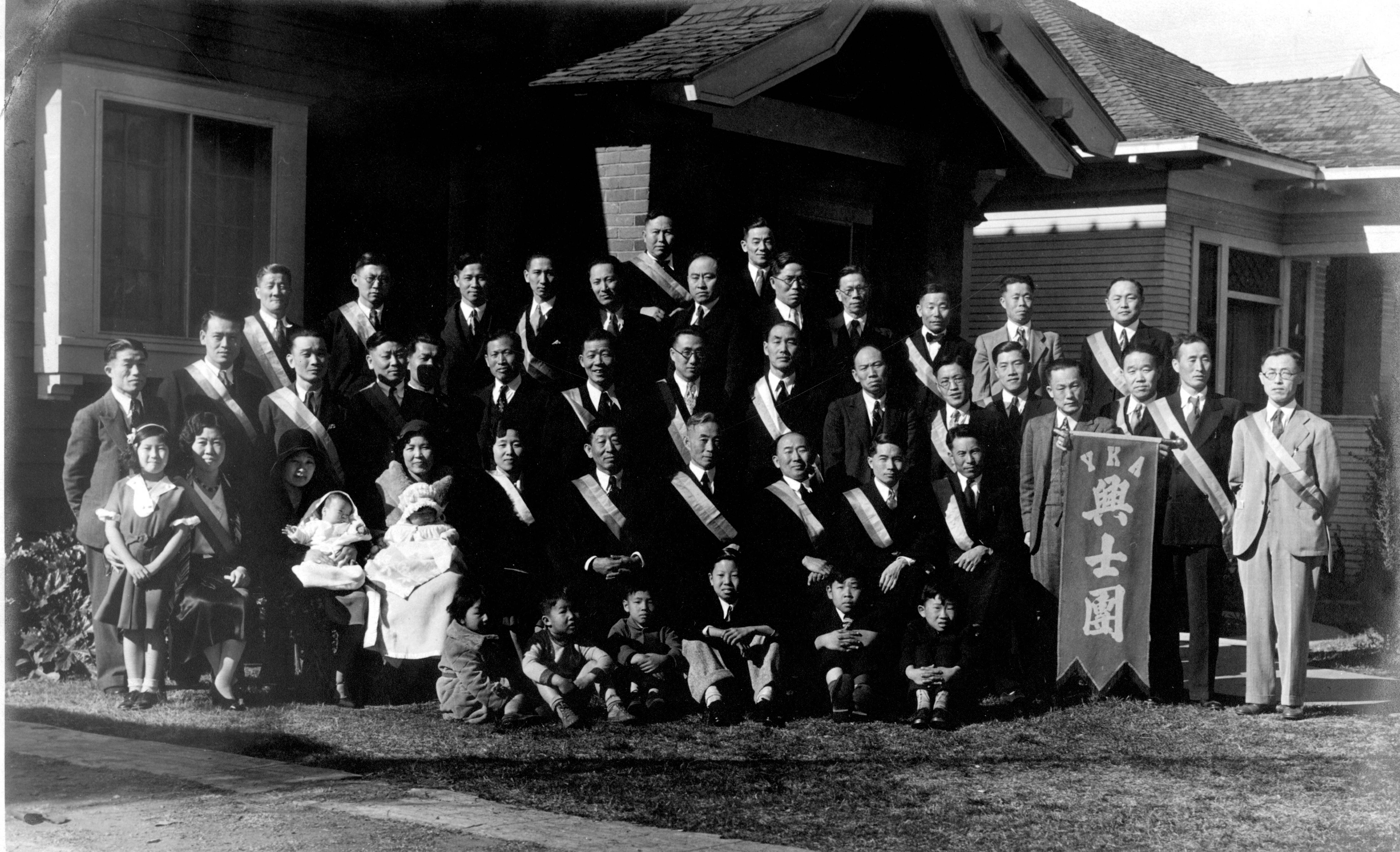 Hungsadan meeting Publisher (of the digital version): University of Southern California. Libraries Repository name: East Asian Library, University of Southern California Series: Marsha Oh Legacy record ID: kada-m23428 Archival file: kada_Volume9/KADA-Ohmarsha035.tiff Rights: © 2000 University of Southern California University Libraries; May not be copied without permission of the Korean Heritage Library, University of Southern California.; From the photographic collection of the Korean American Archive; Korean American Archive Filename: KADA-Ohmarsha035 Coverage date: 1916-12-30 Access conditions: Send requests to East Asian Library, University of Southern California, Los Angeles, CA 90089-0154 or . Repository Geographic subject: Los Angeles, CA Repository address: Los Angeles, CA 90089-1825 Part of collection: Korean American Digital Archive Type: images Part of subcollection: Korean American Archive Photograph Set Contributing entity: University of Southern California Subject (corporate name): Hungsadan; Young Korean Academy